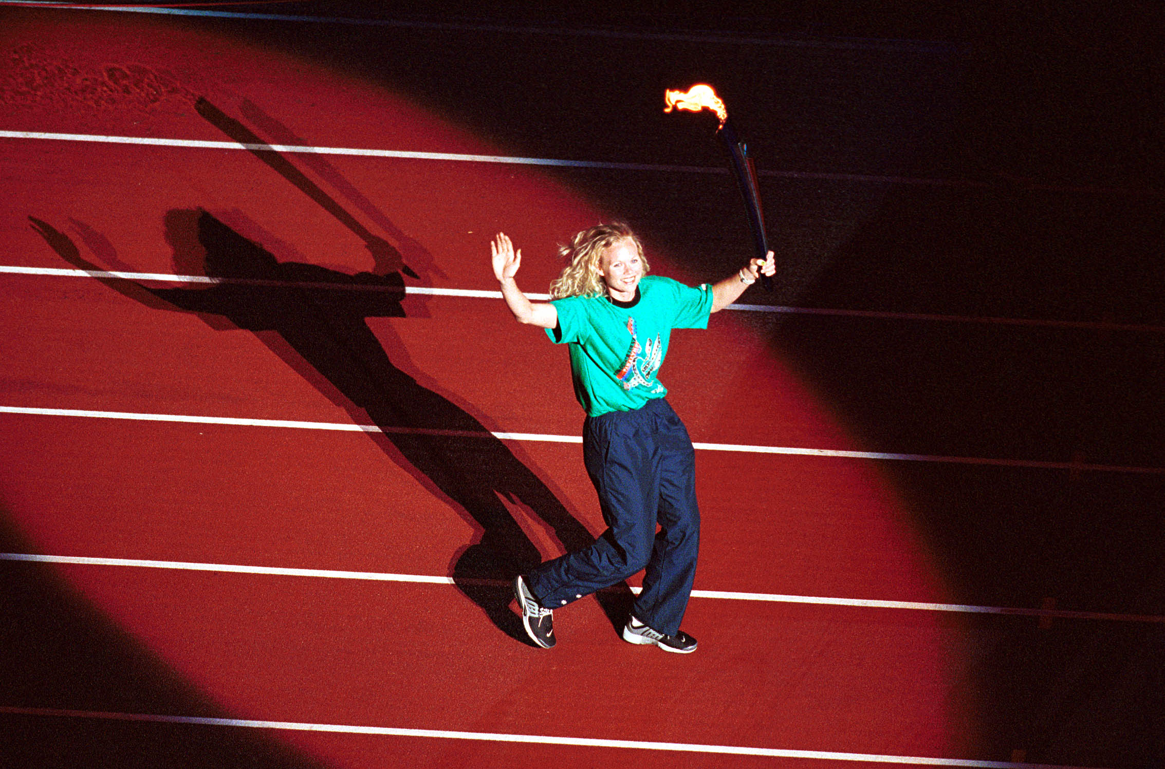 Australian athletics competitor Katrina Webb waves to the crowd as she runs during the torch relay at the Opening Ceremony of the 2000 Sydney Paralympic Games